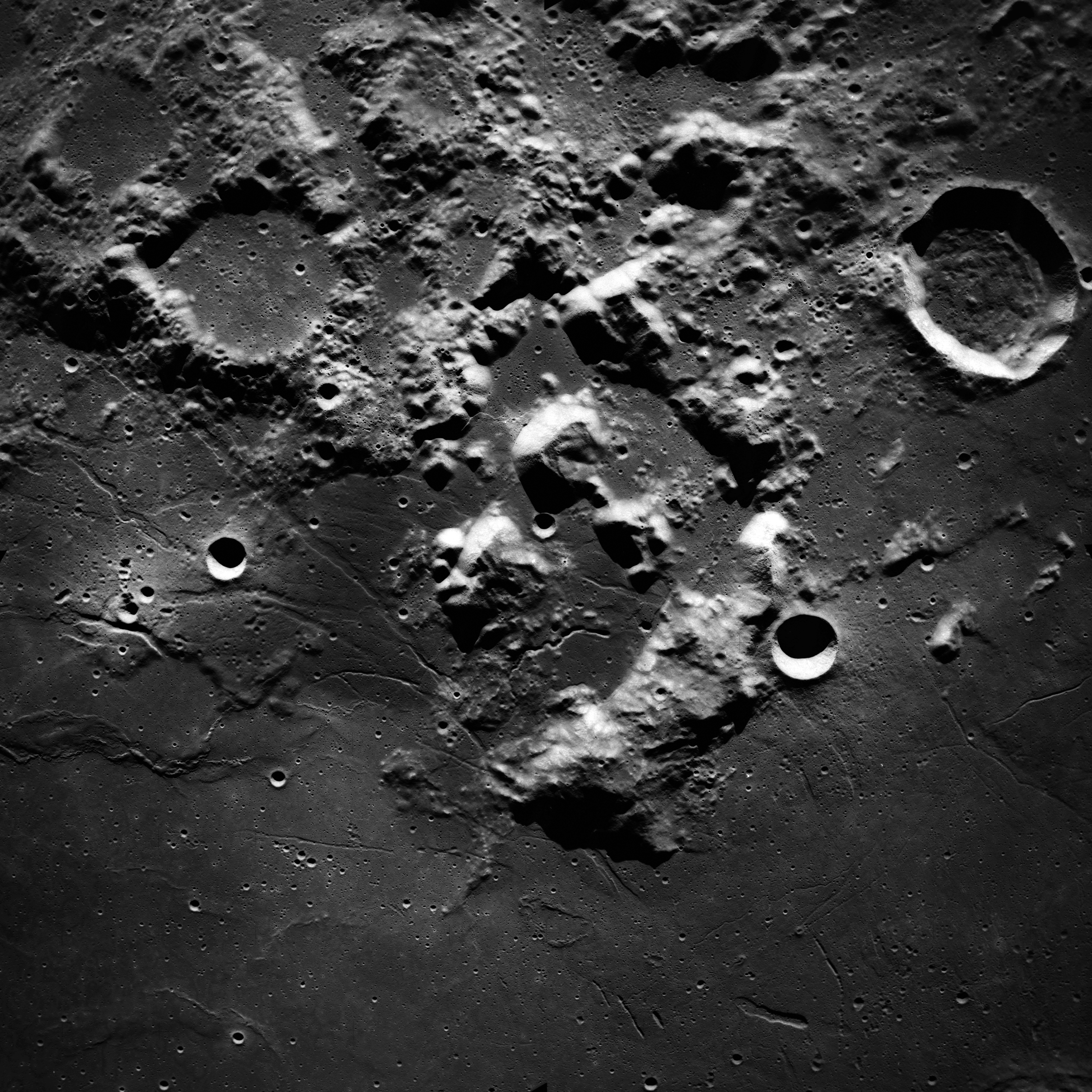 View of Apollo 17 Landing Site. The optic axis of the Mapping Camera is at a fixed angle relative to the spacecraft and is vertical when the spacecraft is in normal SIM Bay attitude. Mapping Camera stereo coverage is obtained by overlap,nominally 78 percent,of consecutive frames along the groundtrack. Oblique views area obtained by spacecraft attitude changes. Lens Focal Length: 3 inches 7.62 centimeters Lens Field of View: 74 degrees By 74 degrees Film Width: 5 inches 12.70 centimeters Film Image: 4.5 by 4.5 inches 11.43 centimeters Film Type: 3400, Panatomic-X Aerial Principal Point Latitude: 20.0 North Principal Point Longitude: 29.9 East Camera Tilt: Vertical Camera AZ: Altitude Kilometers: 113 Revision Number: 14 Sun Elevation: 13 Based on AS17-M-0447